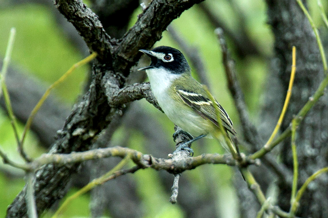 Black-capped Vireo - Texas - Usa_H8O1970